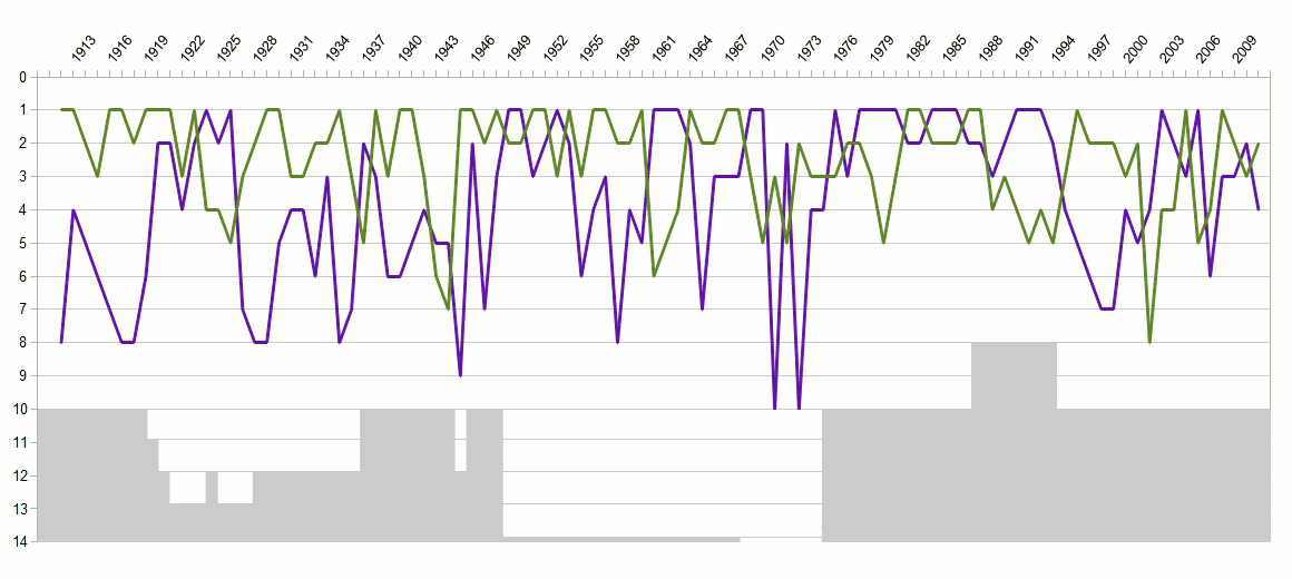 Graph charting finishing league positions of Austrian football club rivals Rapid Wien and Austria Wien